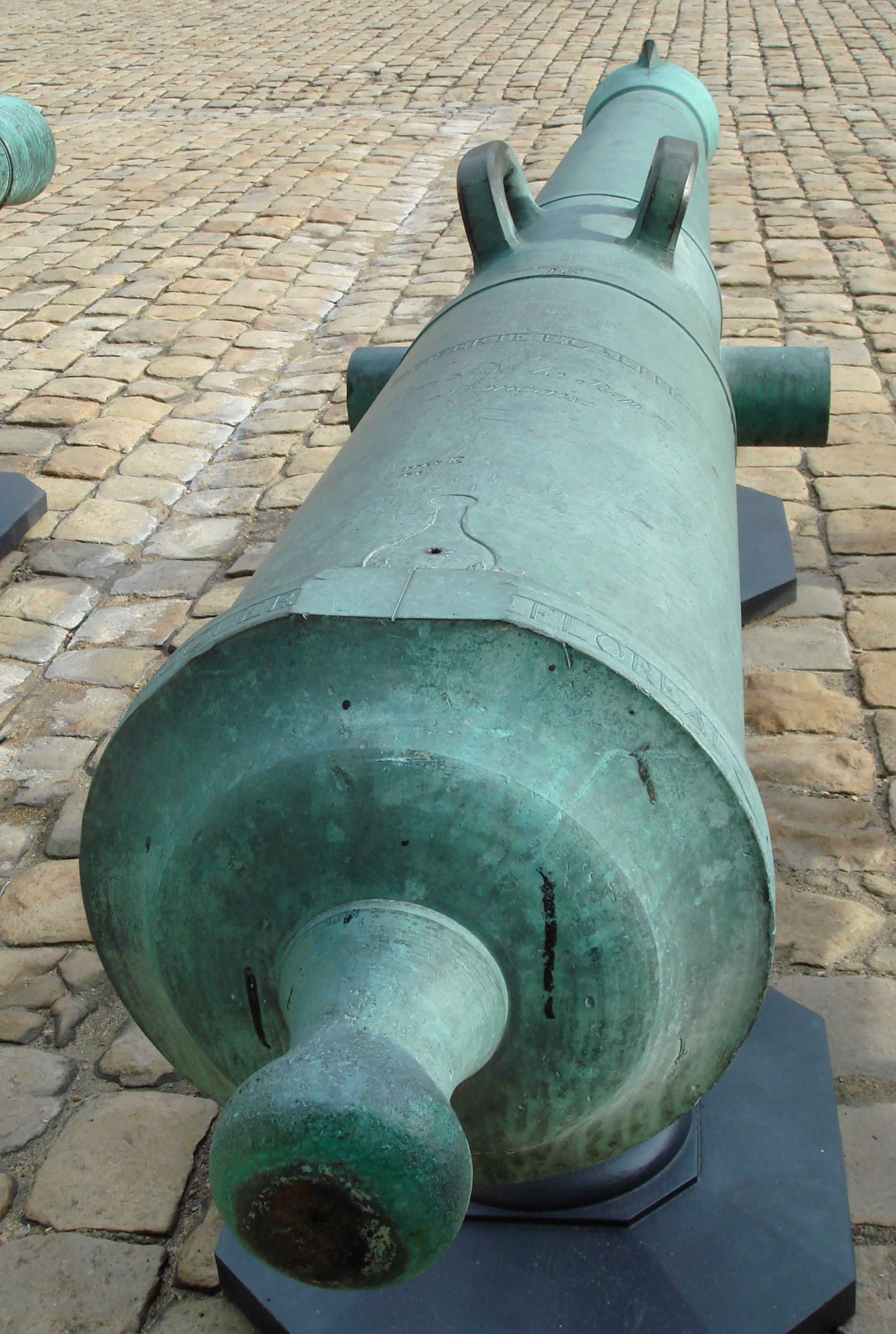 Canon_de_16_Gribeauval_An_3_de_la_Republique_1794_1795